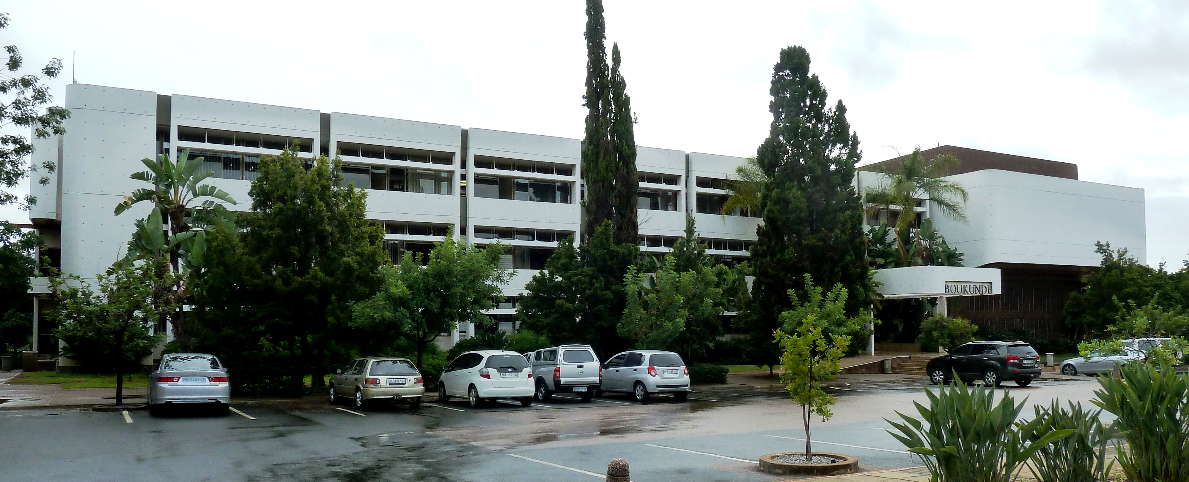 Architecture building at the University of Pretoria